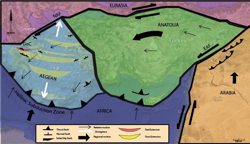 This is an edit of a map I previously uploaded. It shows the regional plate motion in the Mediterranean area.